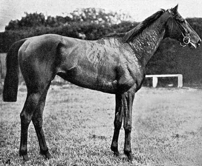 Glass Doll, winner of the 1907 Epsom Oaks.